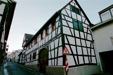 half-timbered house in Staffelsgasse in Alfter-Oedekoven, Germany